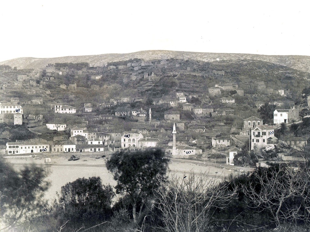 Ulqin/Ulcinj, Montenegro. “The market and harbour quarter of the town of Ulqin (Ülgün) and part of the harbour.” The numbered captions immediately below the photo, right to left, keyed to numbers in photo, read: “(1) Imperial Ottoman Consulate, (2) Harbour-side Mosque, (3) Konak of the Voyvoda, (4) Konak of the Voyvoda, (5) Primary school (Mekteb).” Sultan Abdul Hamid Photo Collection, Istanbul University Library, No. 91243-0111